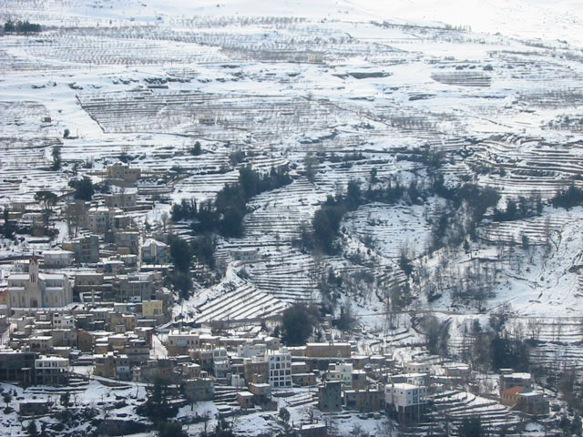 Kfarsghab under the snow taken on 30 January 2004